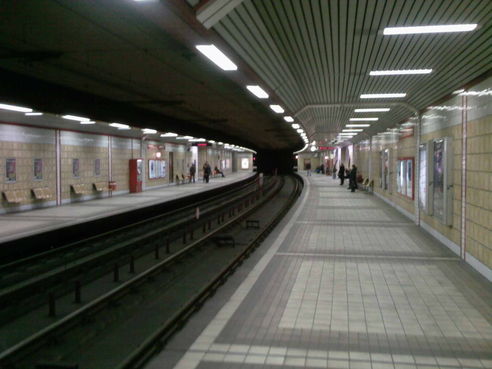 U-Bahnhof Christophstraße/Mediapark, Cologne, Germany